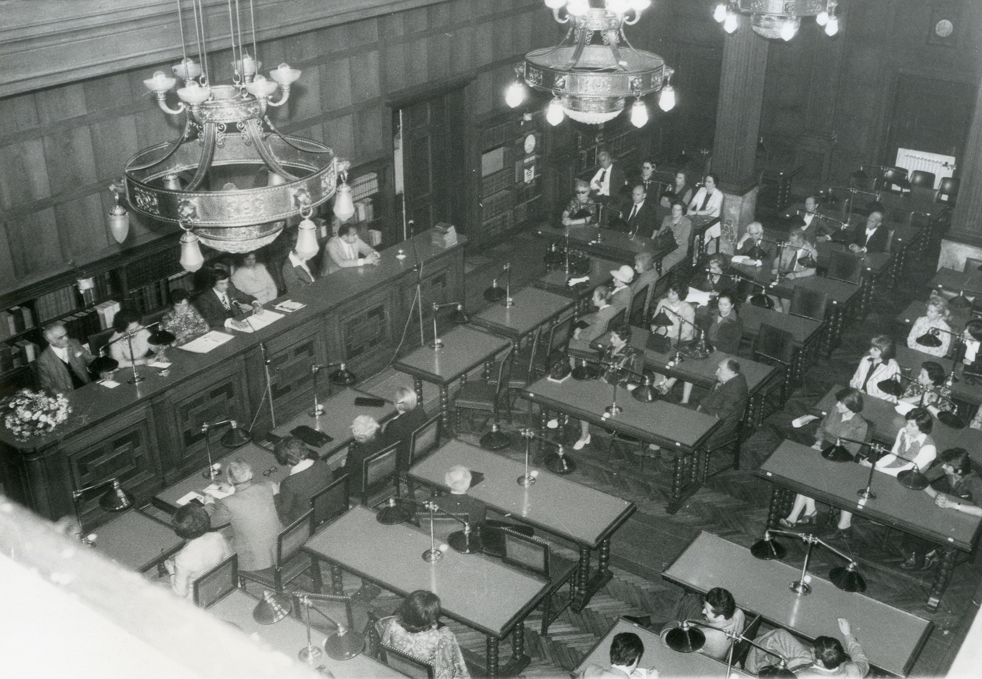 Student Reading Room in University Library "Svetozar Marković", Belgrade, Serbia. Srpski (latinica): Studentska čitaonica, Univerzitetska biblioteka "Svetozar Marković", Beograd, Srbija.